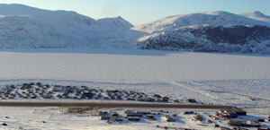 by Technicalglitch